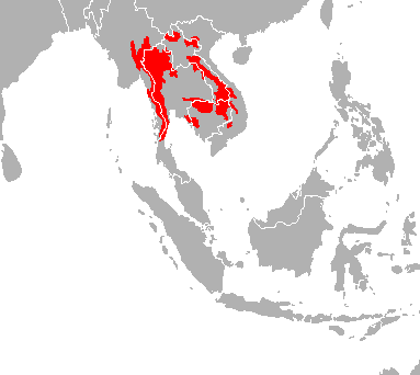 Map of distribution of subsecies Panthera tigris corbetti made by compilation from other maps. Includes national borders.